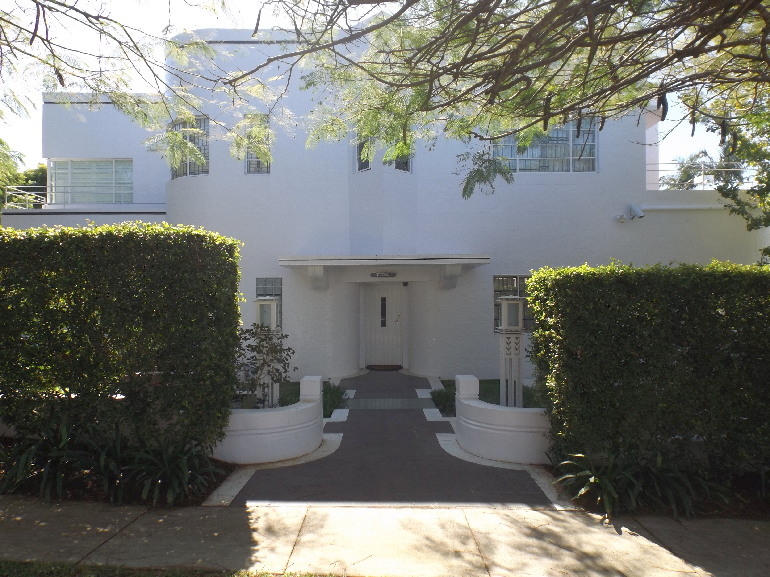 Photo of the entrance to Chateau Nous at Ascot, Brisbane, Queensland, Australia.